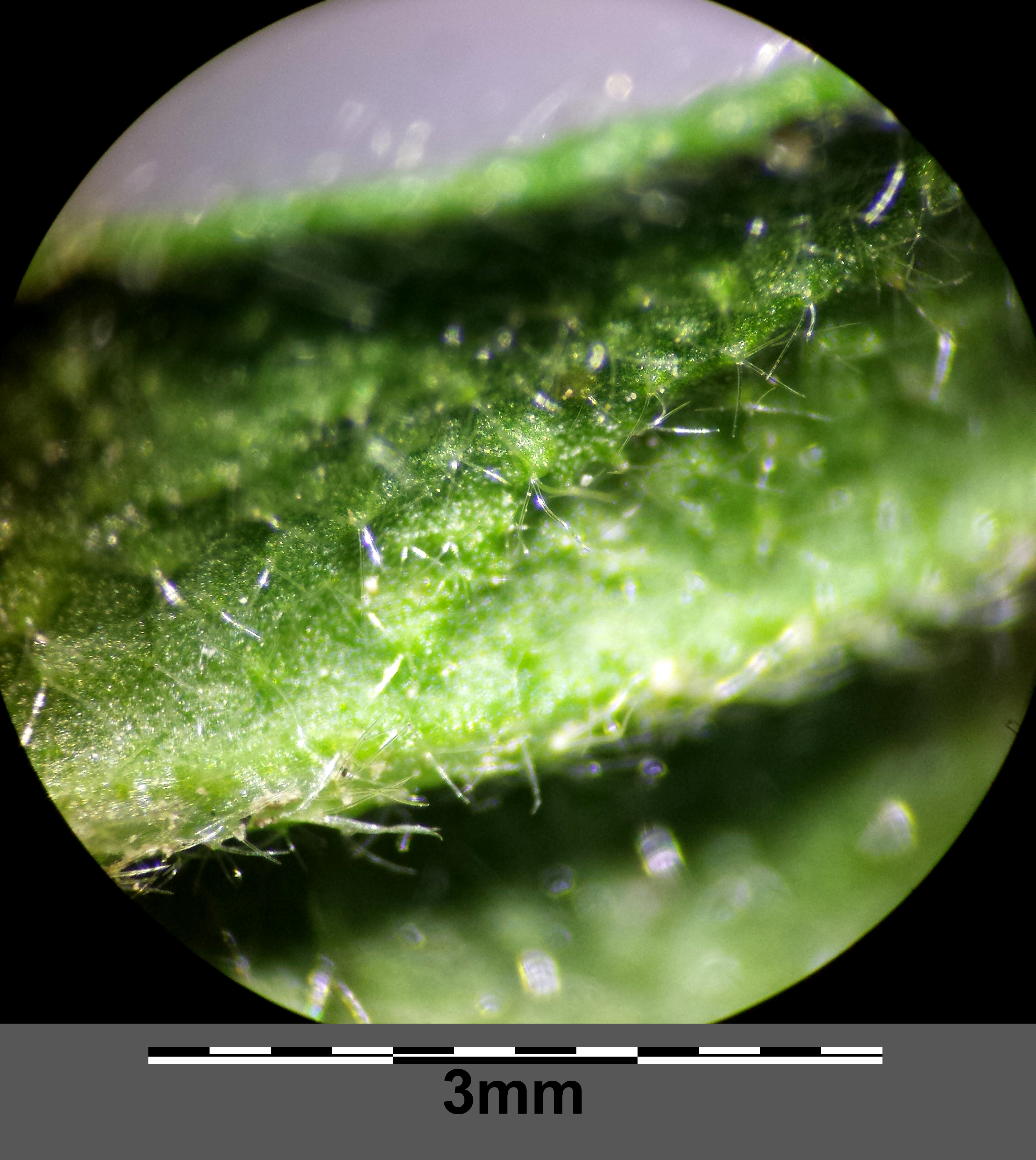 Bottom side of leaf with cluster hairs Taxonym: Helianthemum nummularium subsp. obscurum ss Fischer et al. EfÖLS 2008 ISBN 978-3-85474-187-9 Location: between Michelberg and Steinberg near Niederhollabrunn, district Korneuburg, Lower Austria - ca. 300 m a.s.l. Habitat: wayside/slope